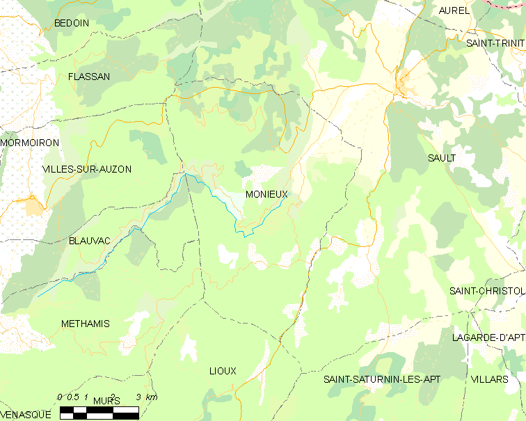 Map of French municipality Monieux